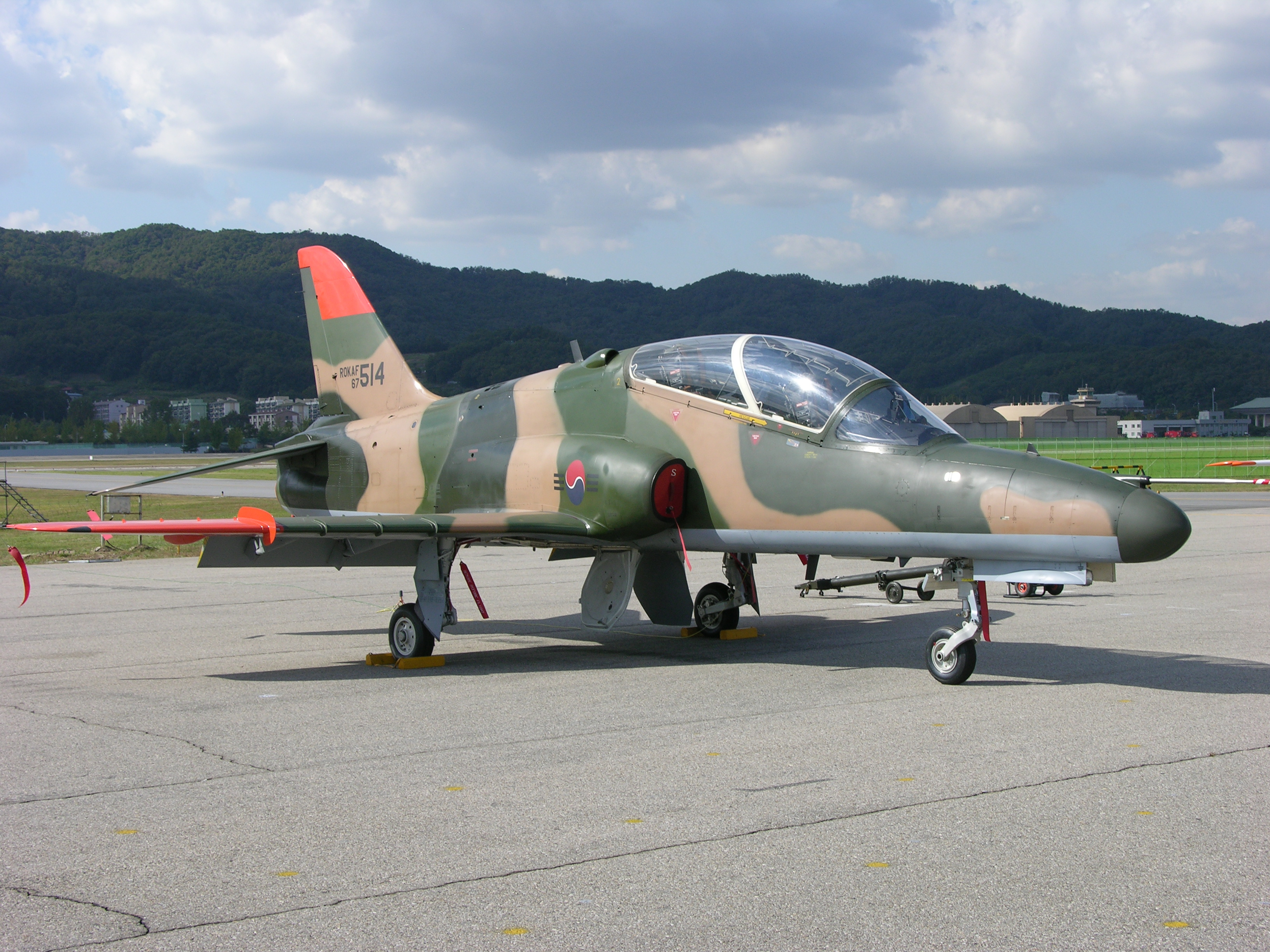 British built Hawk Mk.67 67-514 of 216 FTS RoKAF at the Seoul airshow 2005